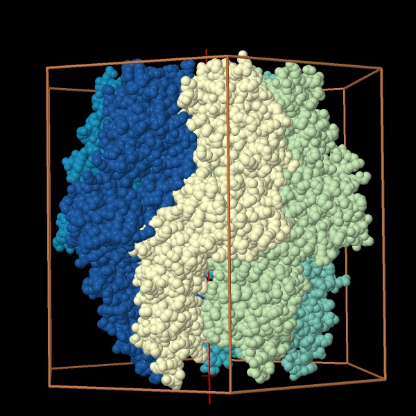 Side view of the Ton-Lon hexamer. Individual subunits are in different colors